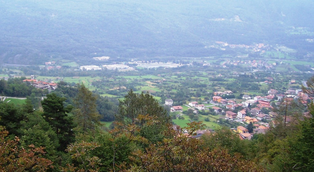 Ono e Cricolo, Ono San Pietro, Val Camonica